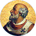 Pope Stephen VIII (IX)